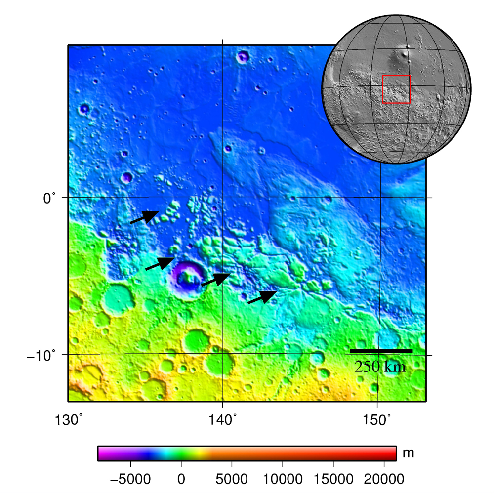 Aeolis Mensae (Mars) topography